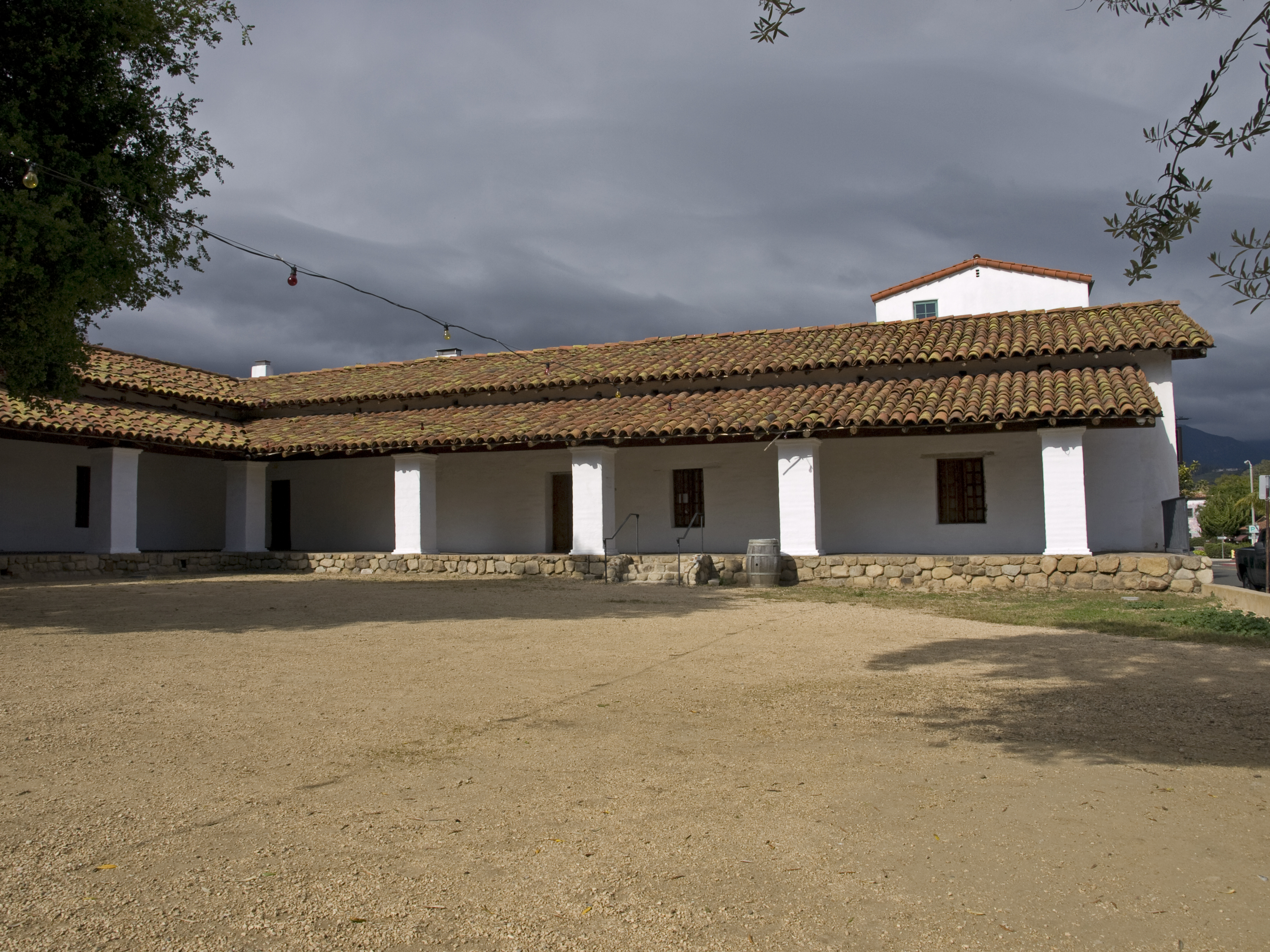 Casa de la Guerra, Santa Barbara, California, view from De la Guerra Stree to the right (eastern) side of the building